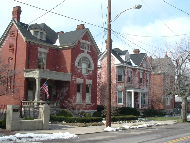 3rd Street in North Lexington, Kentucky